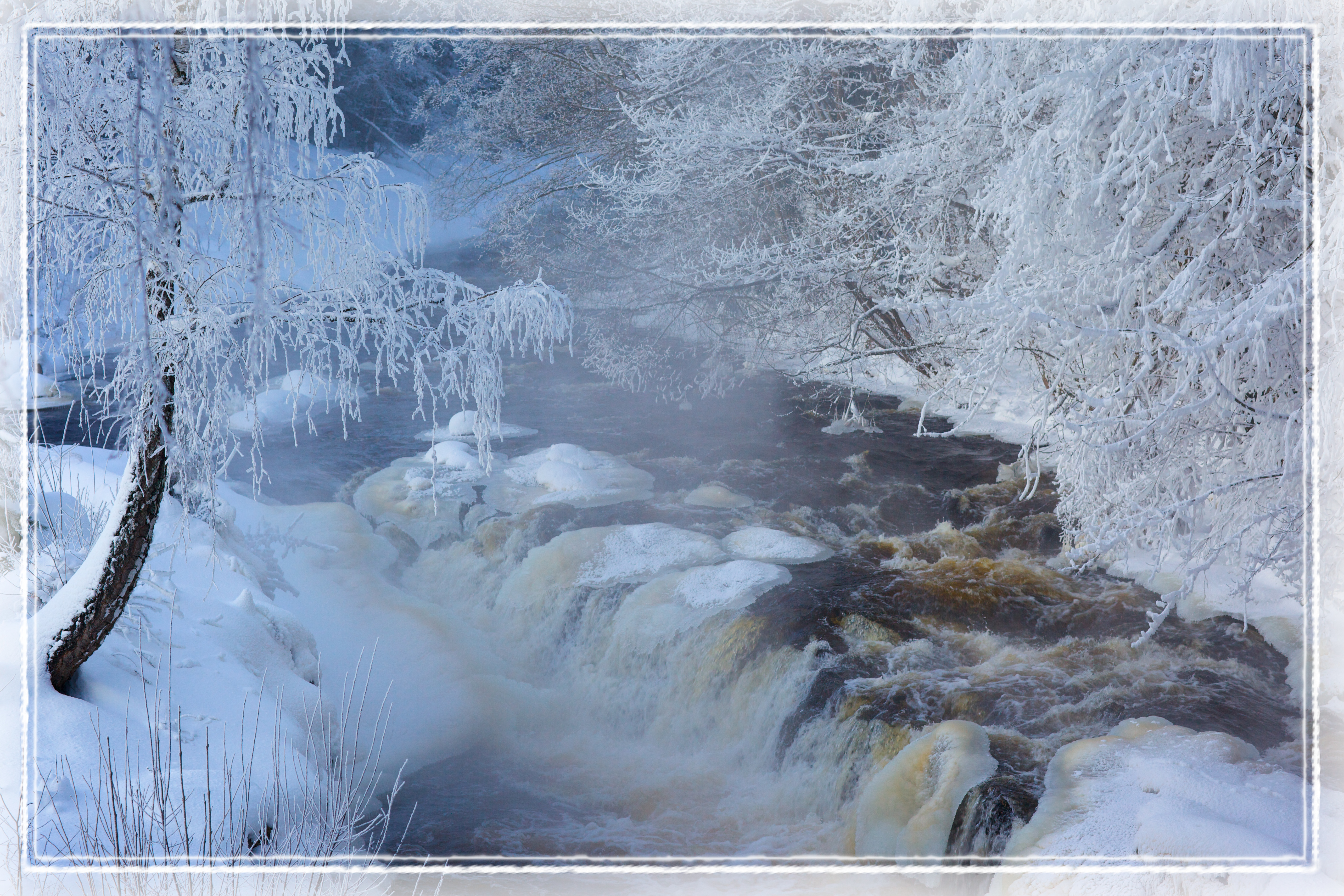 I was on a Sunday trip with my family when I discovered this beautiful place. I didn't have an appropriate lens, nor my tripod, but I will definitely come back to take more pictures! (Frozen river (Hoppestadelva) in Jønnevall, Telemark, Norway)